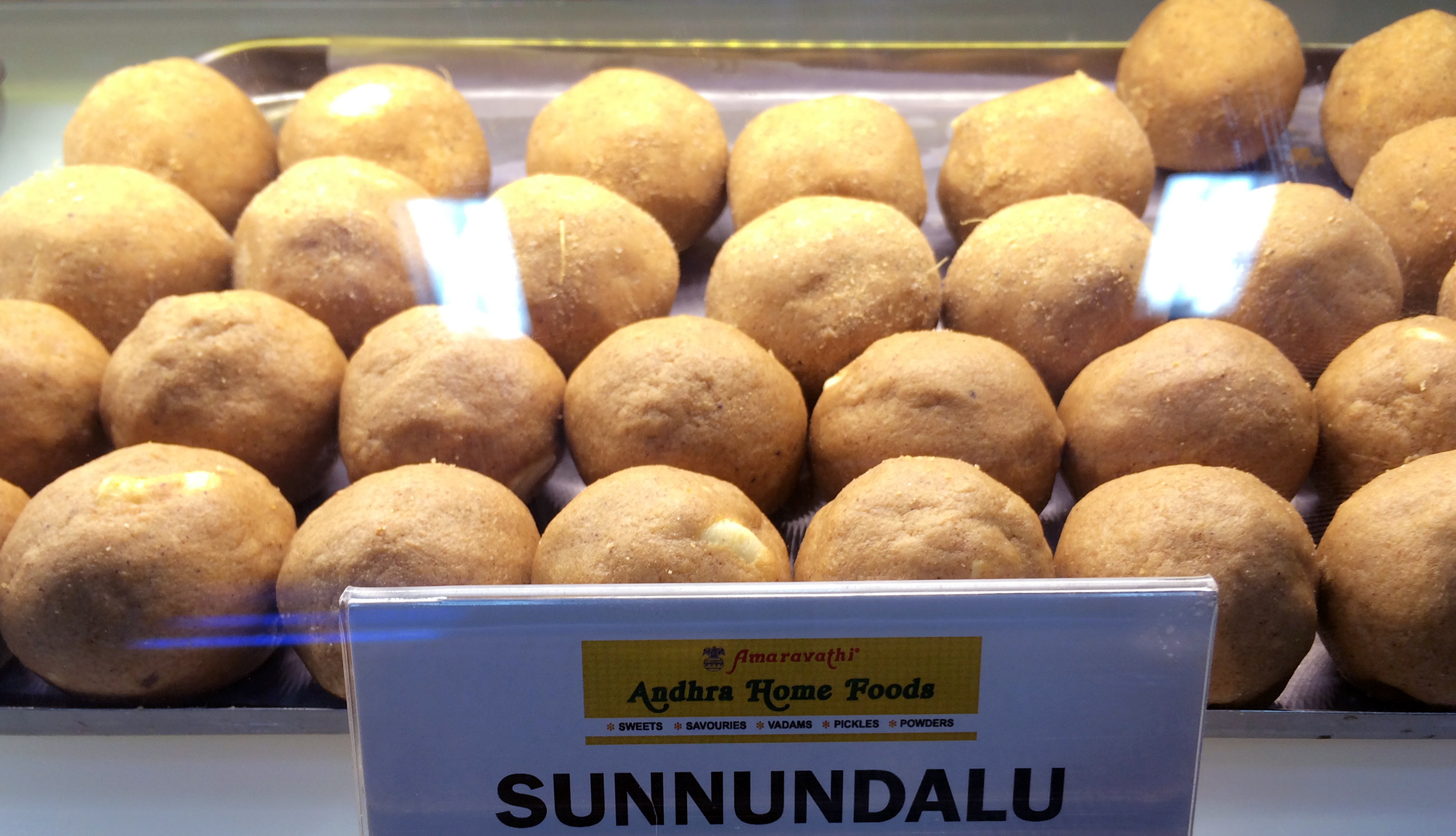 Sunnundalu is a traditional Andhra sweet made with roasted Urad Dal, Jaggery and Ghee. Made during all functions like marriage, baby shower (Sreemantham in Telugu) etc.